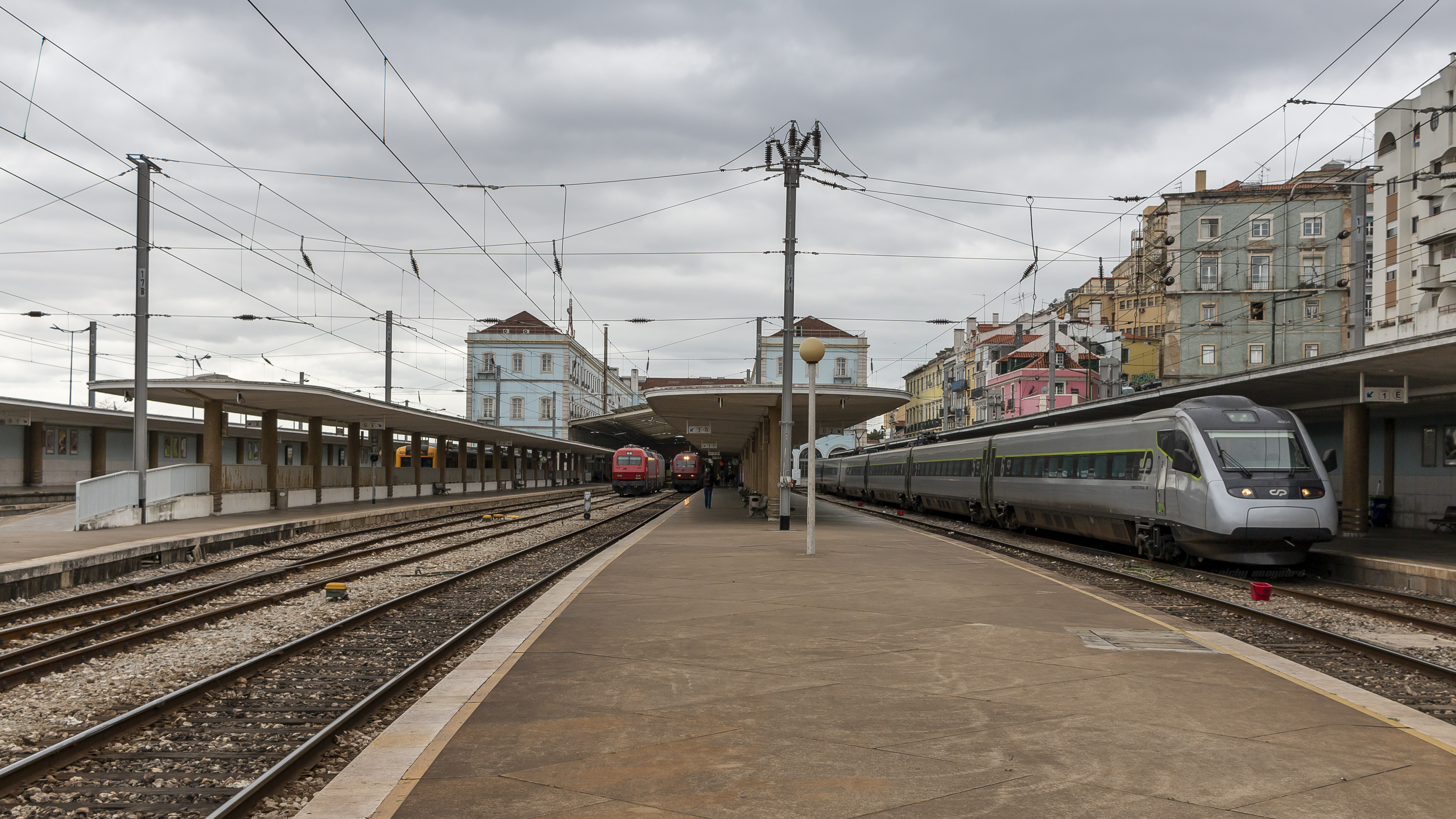 AlfaPendular train of type 4000 in grey/green livery at St Apolónia train station, Lisbon, Portugal